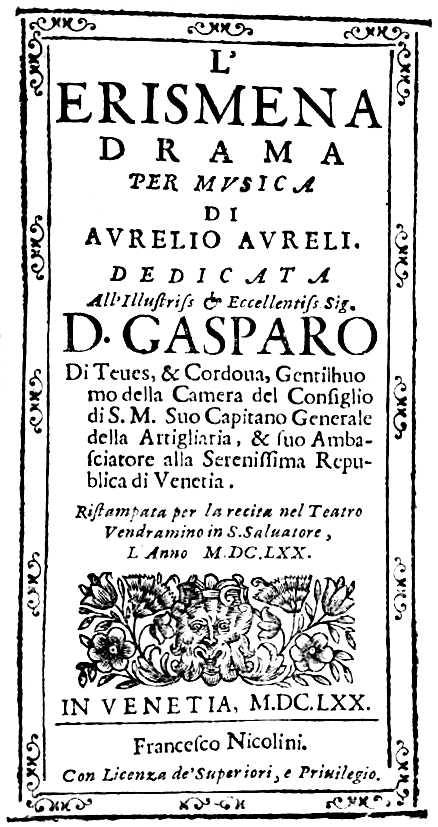 Francesco Cavalli - Erismena - title page of the libretto - Venice 1670